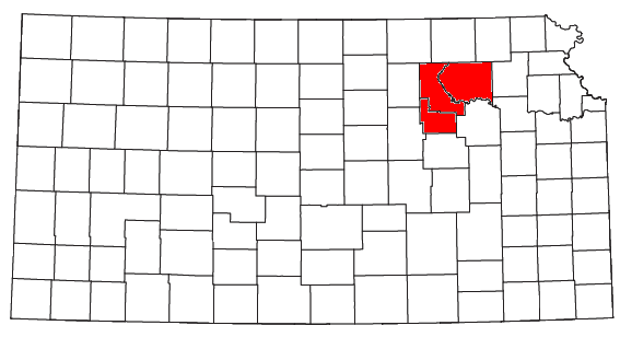 Locator map of the Manhattan Micropolitan Statistical Area in the northeastern part of the U.S. state of Kansas.